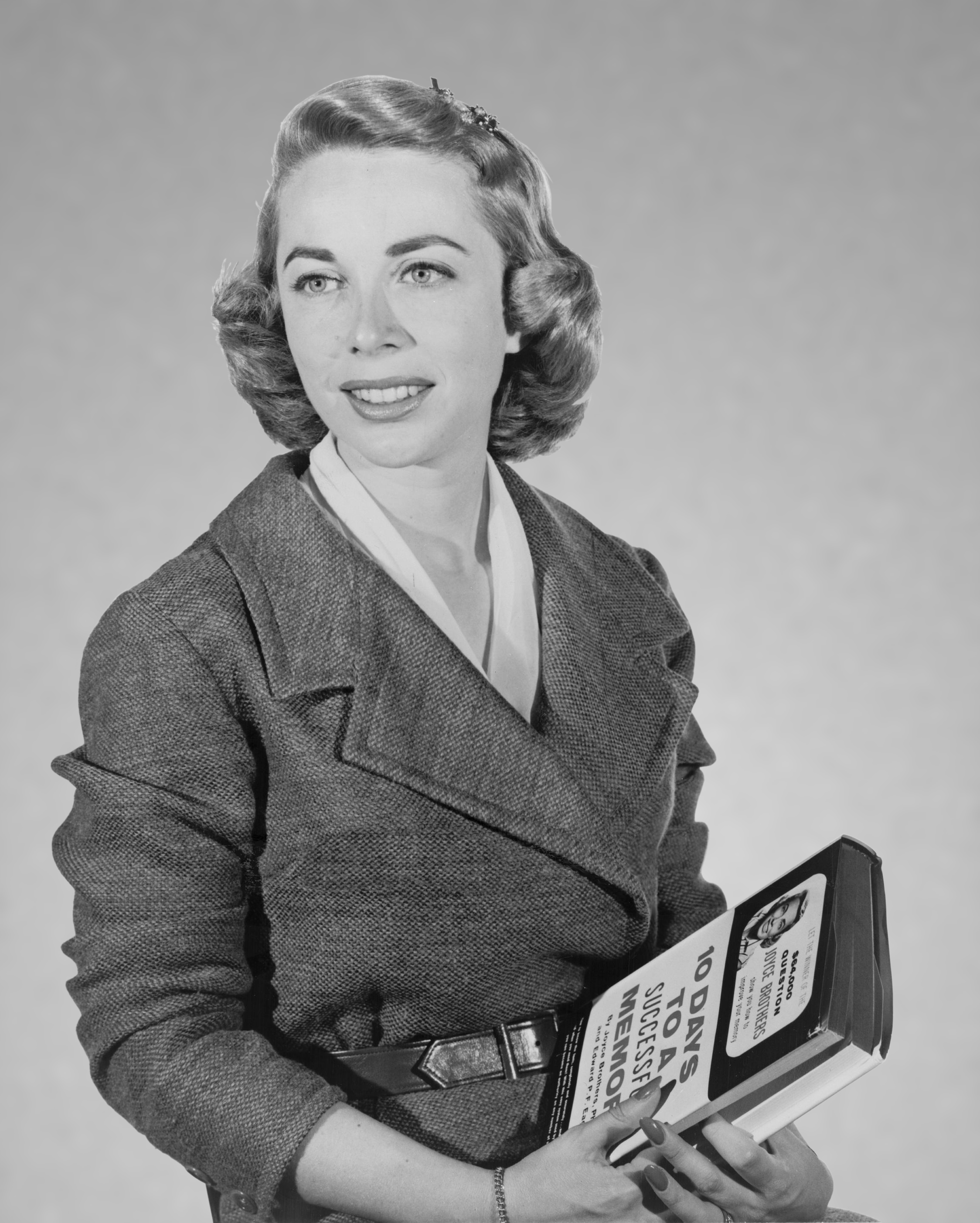 Dr. Joyce Brothers, half-length portrait, facing slightly left, holding book she wrote / World Telegram photo by Phyllis Twacht